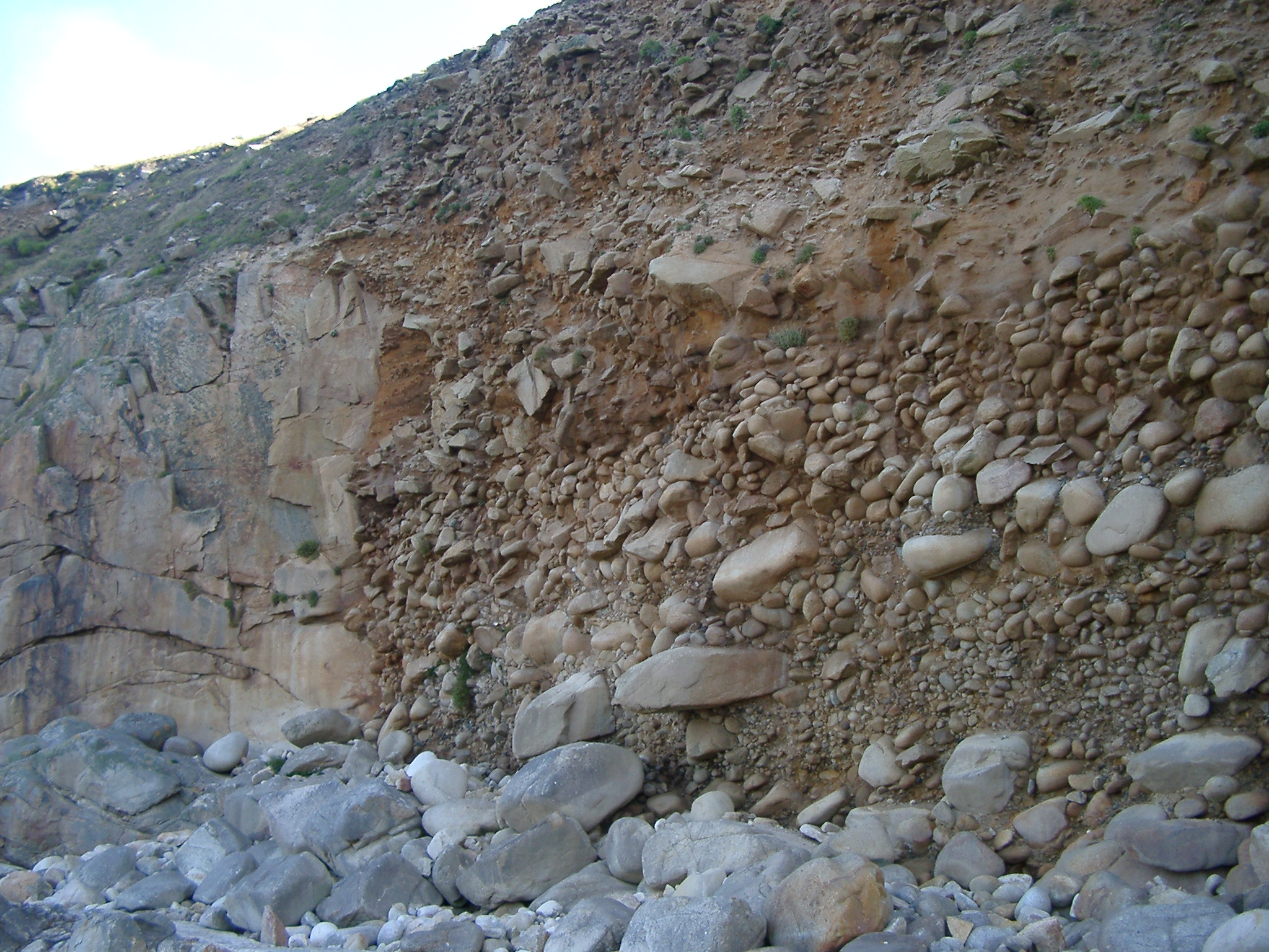 Climate history revealed! Bottom: current beach - rounded rocks Middle: raised beach (rounded pebbles but above current sea level) from warm period 120000 years ago (Mediterranean Climate in south Britain) Top: head deposits (angular - broken by ice action) from 100000-20000 years ago when area was tundra and ice covered much of Britain.